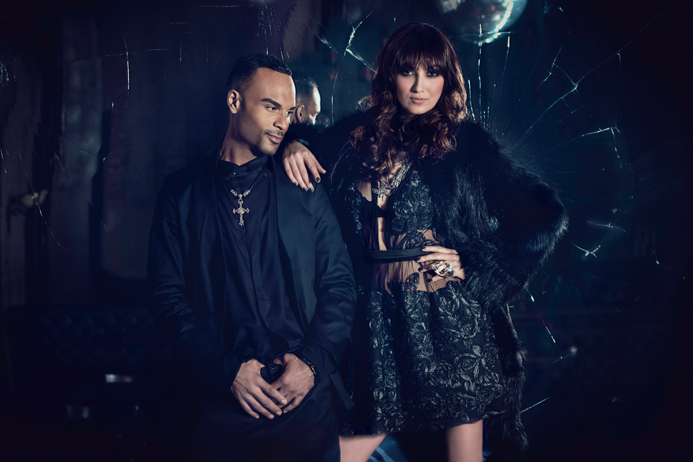 Nica & Joe